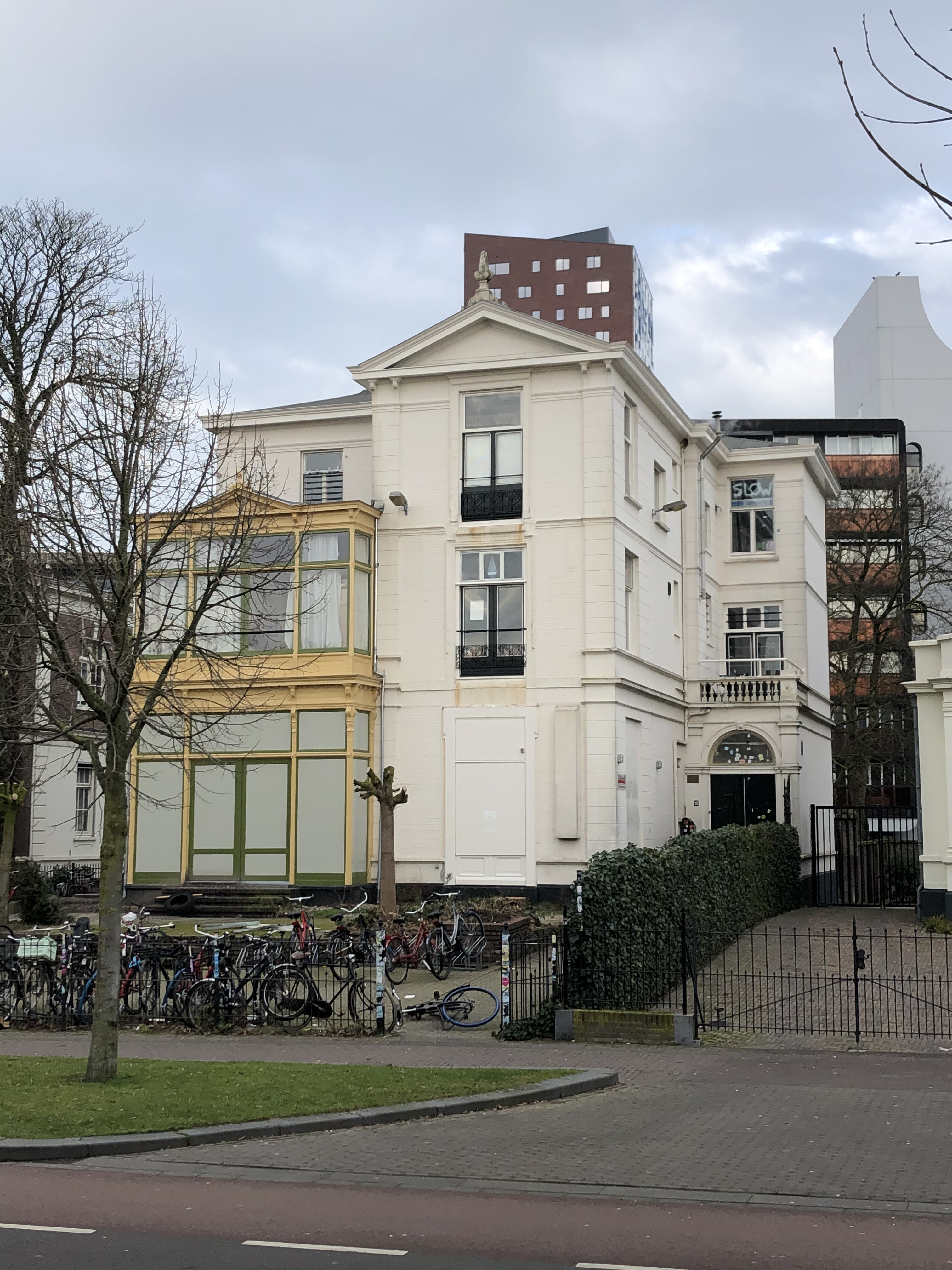 Building of the former N.C.S.V. Diogenes, a cultural student association from Nijmegen, the Netherlands